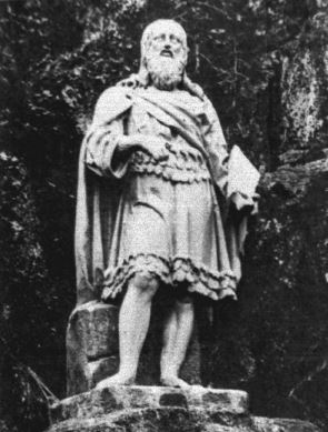 The original Väinämöinen Monument in the Park Monrepos, Vyborg, by Danish sculptor Gotthelf Borup. Erected 1831 and demolished 1873.